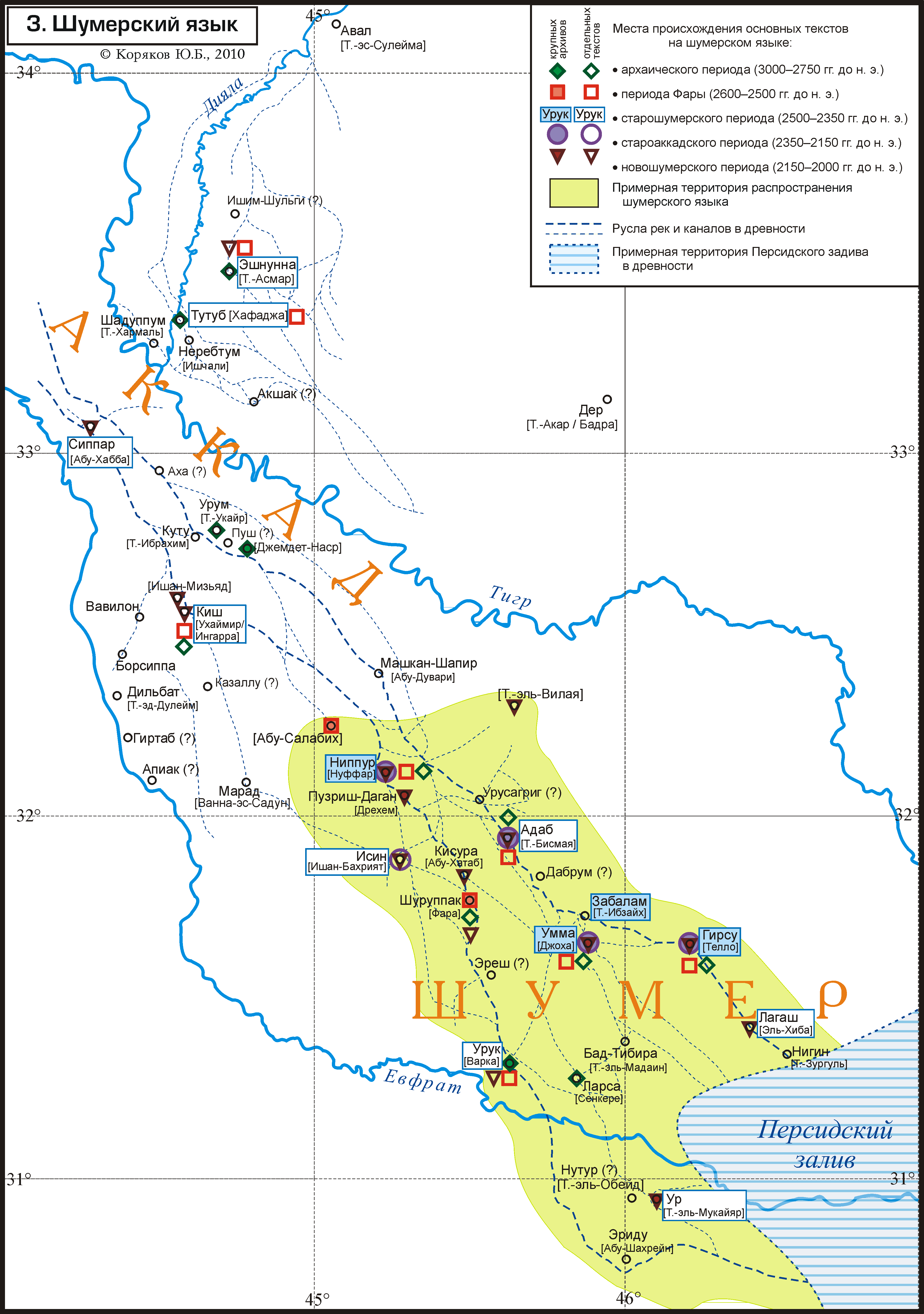 Map of Sumerian language area in 4th-2nd mil BC. In Russian.